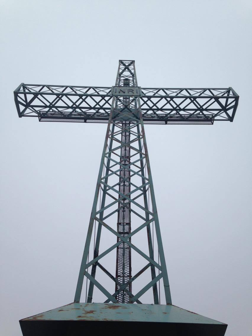 Cross at the top of the Côte des Chats, Saint-Pacôme, Quebec.